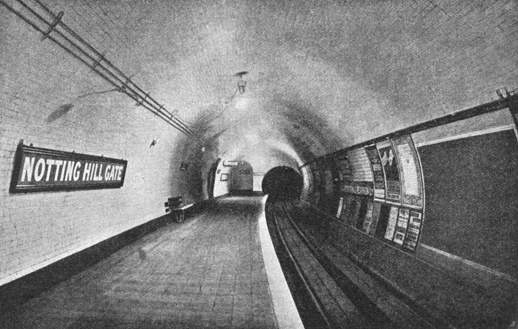 Notting Hill Gate tube station of the Central line in London.